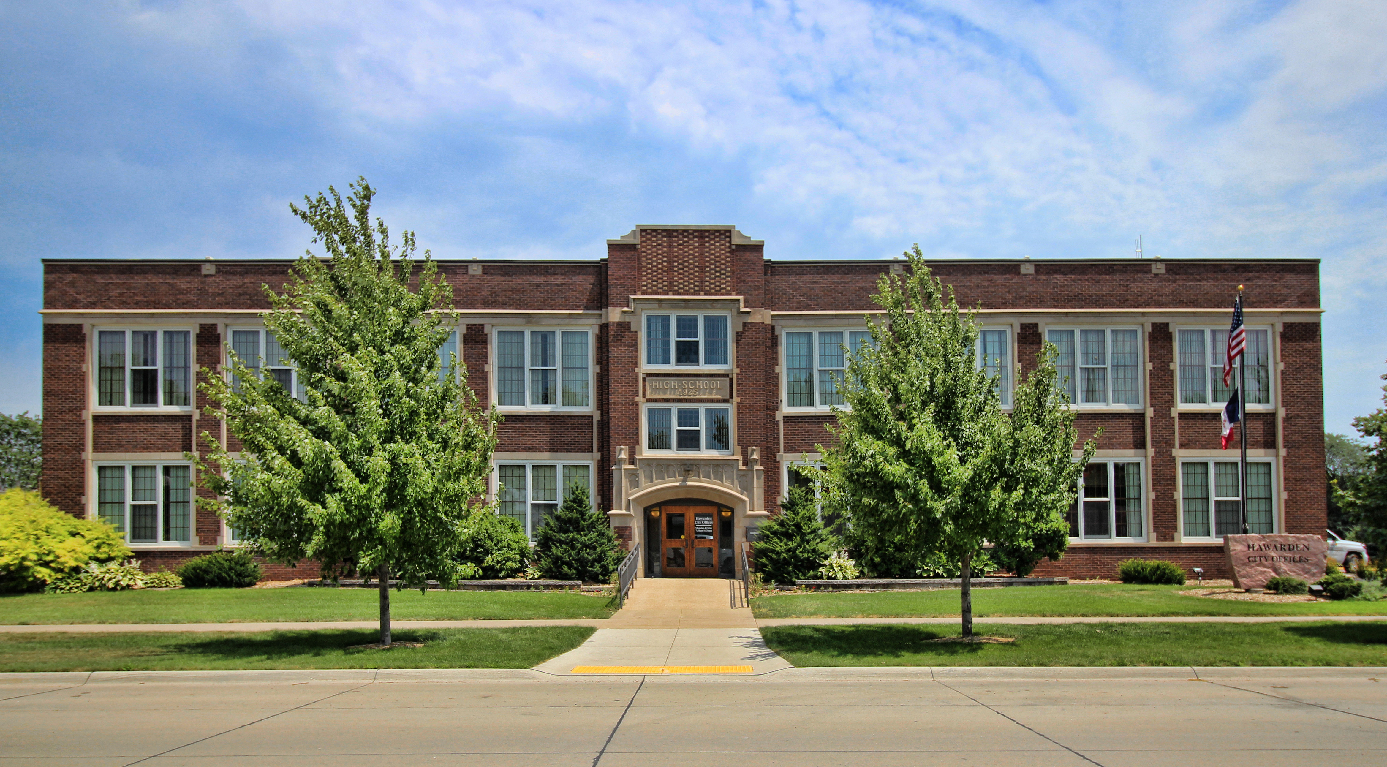 Photo of City Hall in Hawarden Iowa